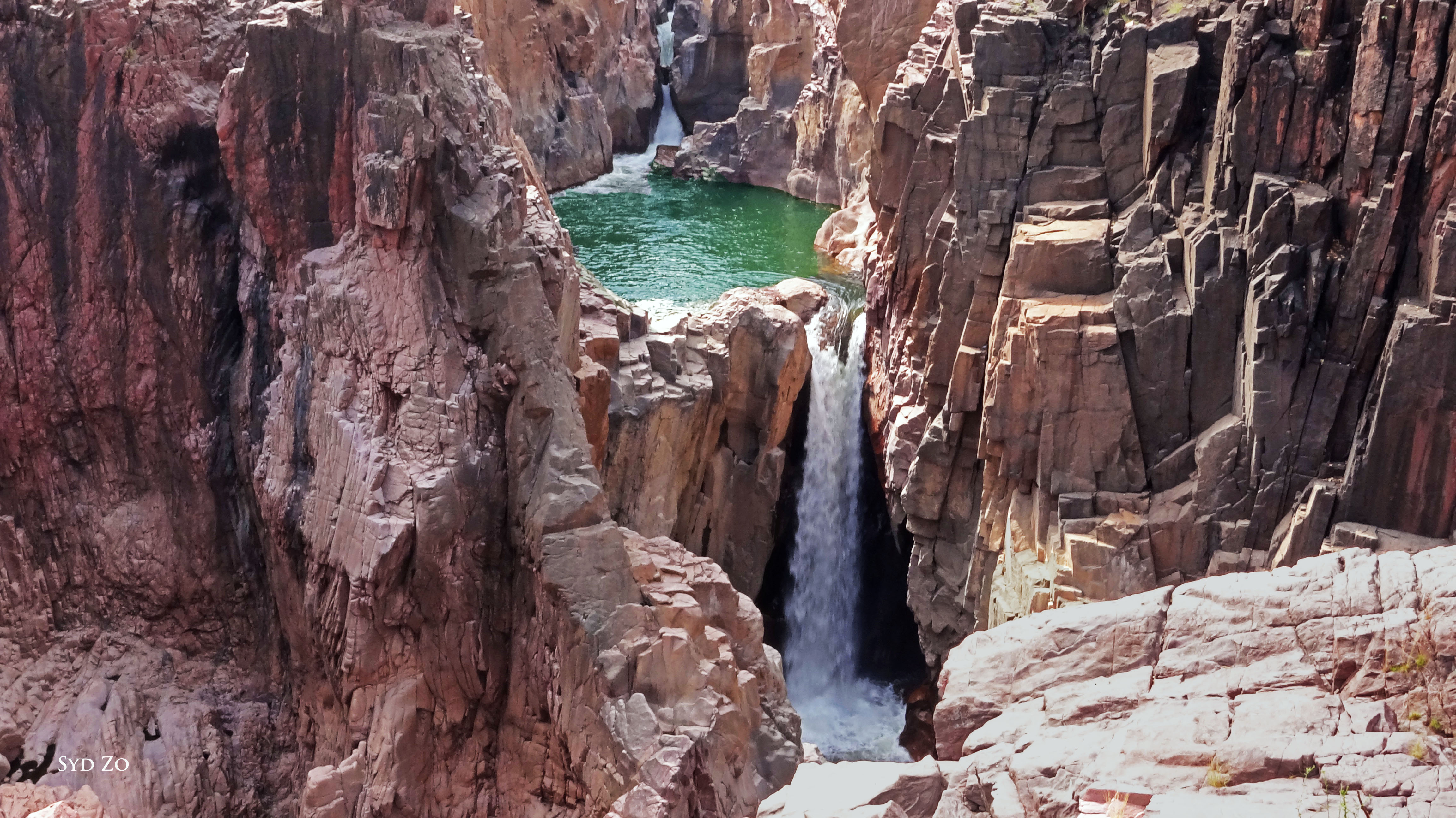 Raneh falls flowing through igneous rocks